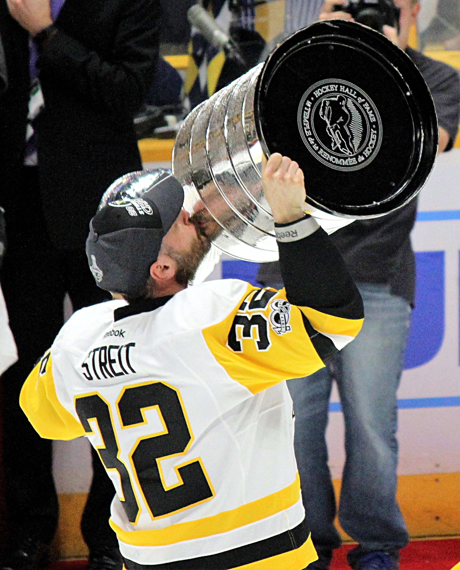 Pittsburgh Penguins defenseman Mark Streit raises the Stanley Cup, June 11, 2017, at Bridgestone Arena in Nashville, TN.